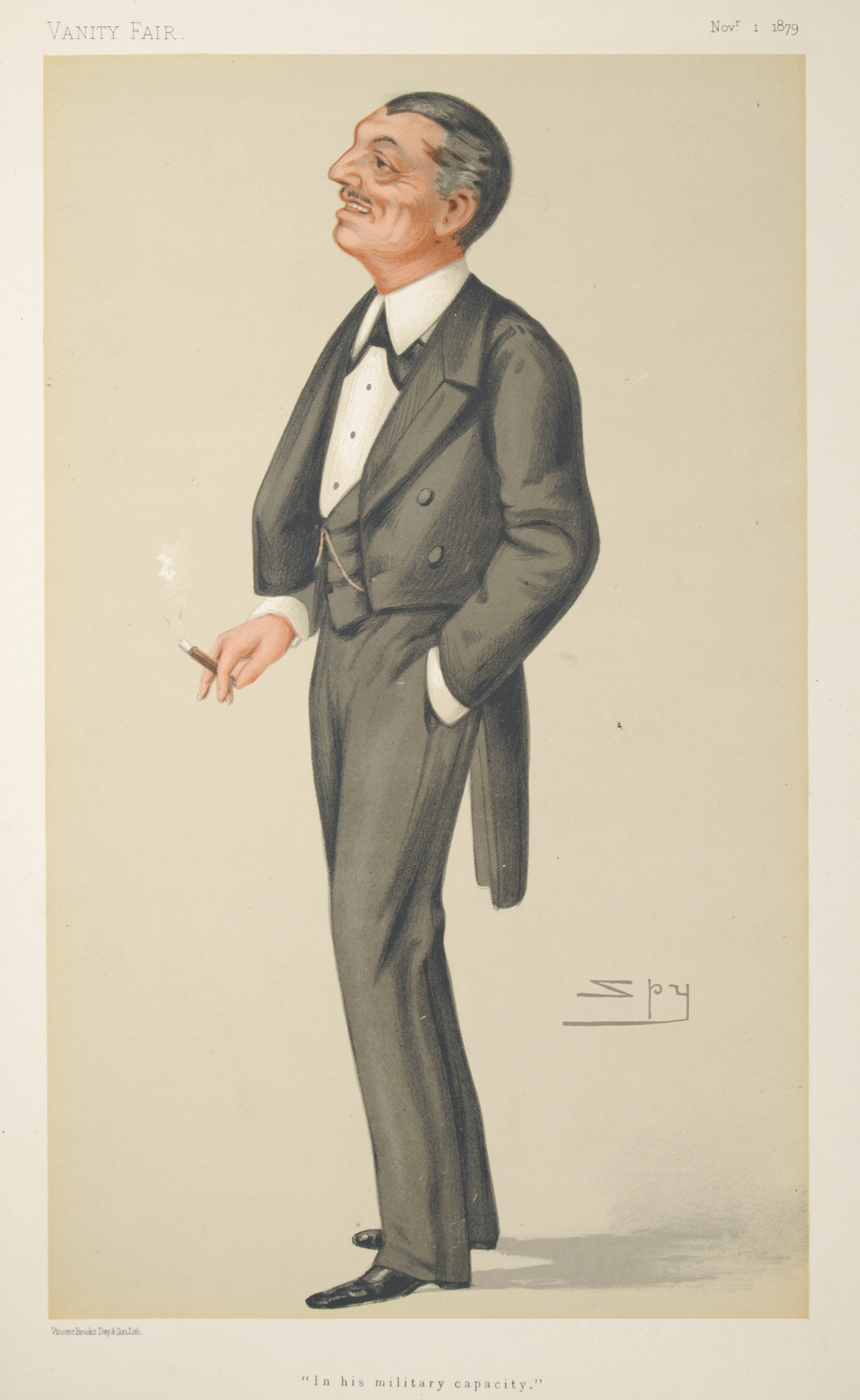 Men of the Day No.208: Caricature of Mr Montagu Williams. Caption reads: "In his military capacity"